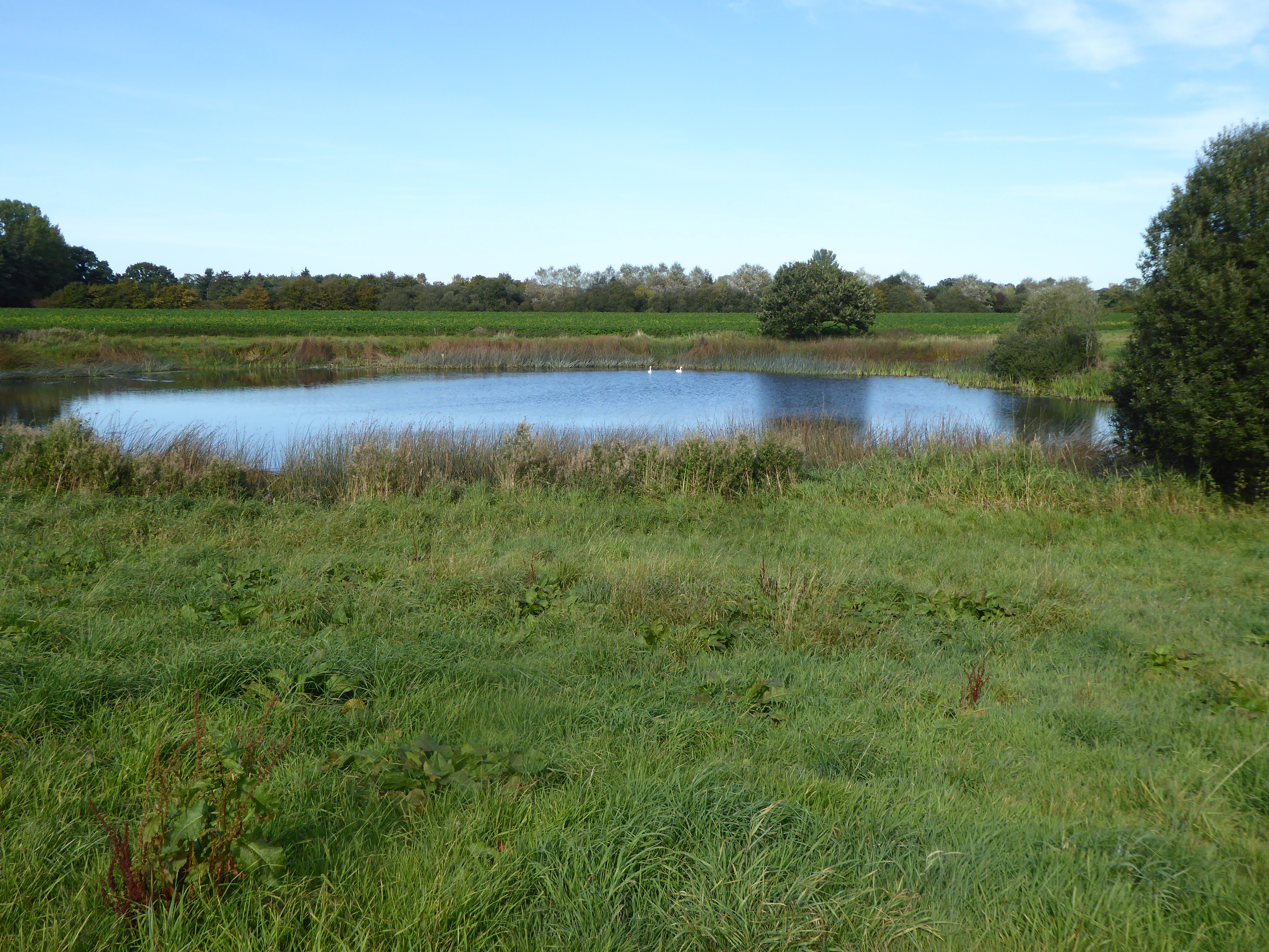 West Mere is part of Wretham Park Meres, a Site of Special Scientific Interest north of Thetford in Norfolk.